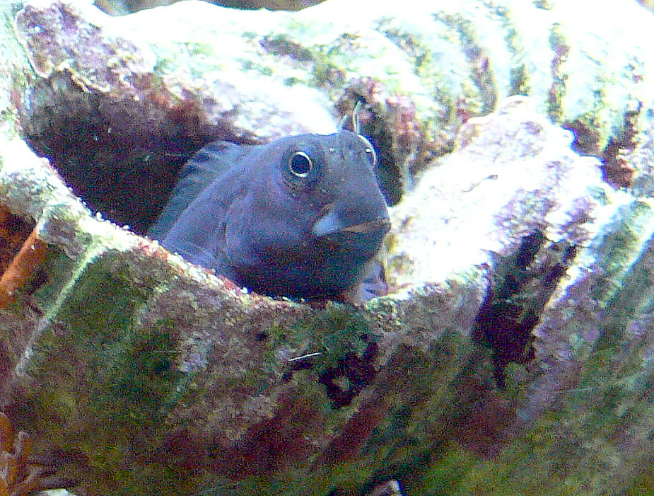 Ecsenius bicolor Bicolor blenny My own Photo User:Haplochromis